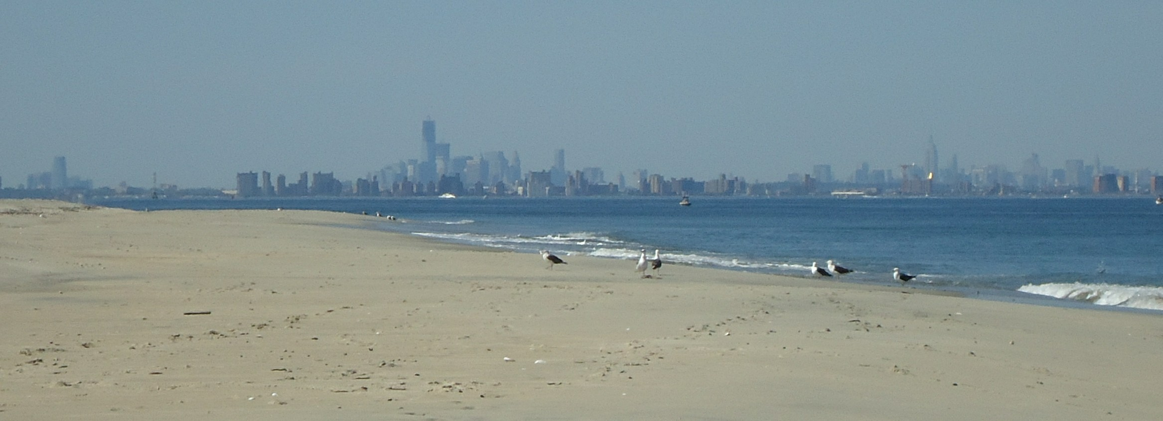 The Sandy Hook spit reaches towards New York Harbor; in the distance, one can see the New York City skyline, with the new tower emerging in the financial district (middle, slight left), Jersey City buildings (far left) and the Empire State building and midtown (to the right).